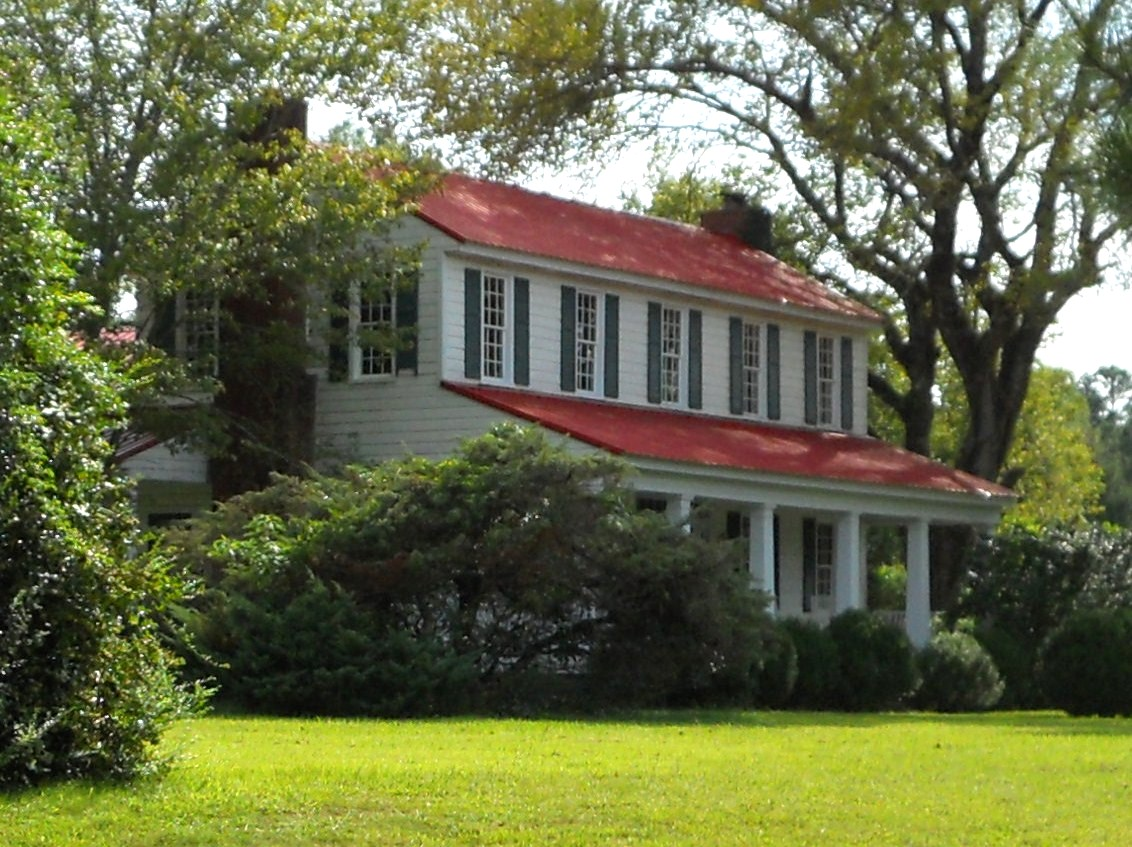 This is a photograph of the William and Ann Copeland Jr. House located near Shiloh, Georgia.